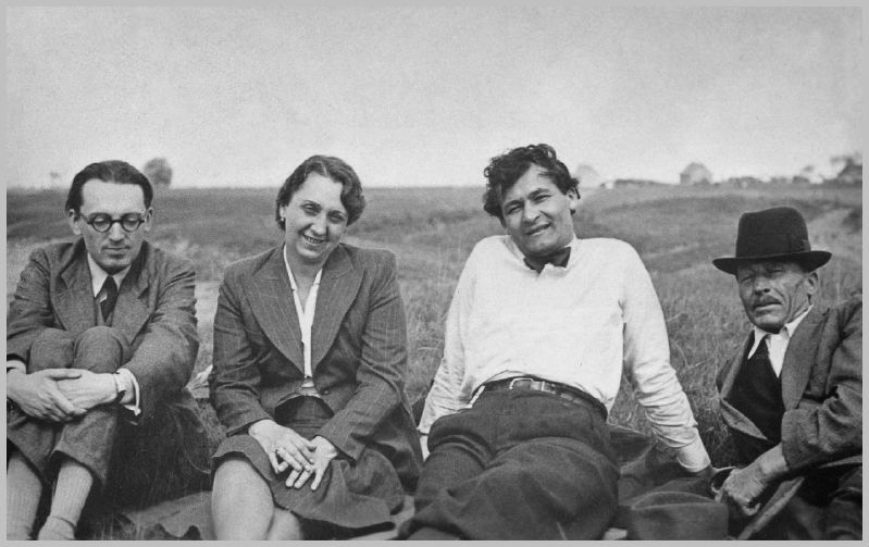 István Bibó, unknown, Ferenc Erdei and old Ferenc Erdei in Makó